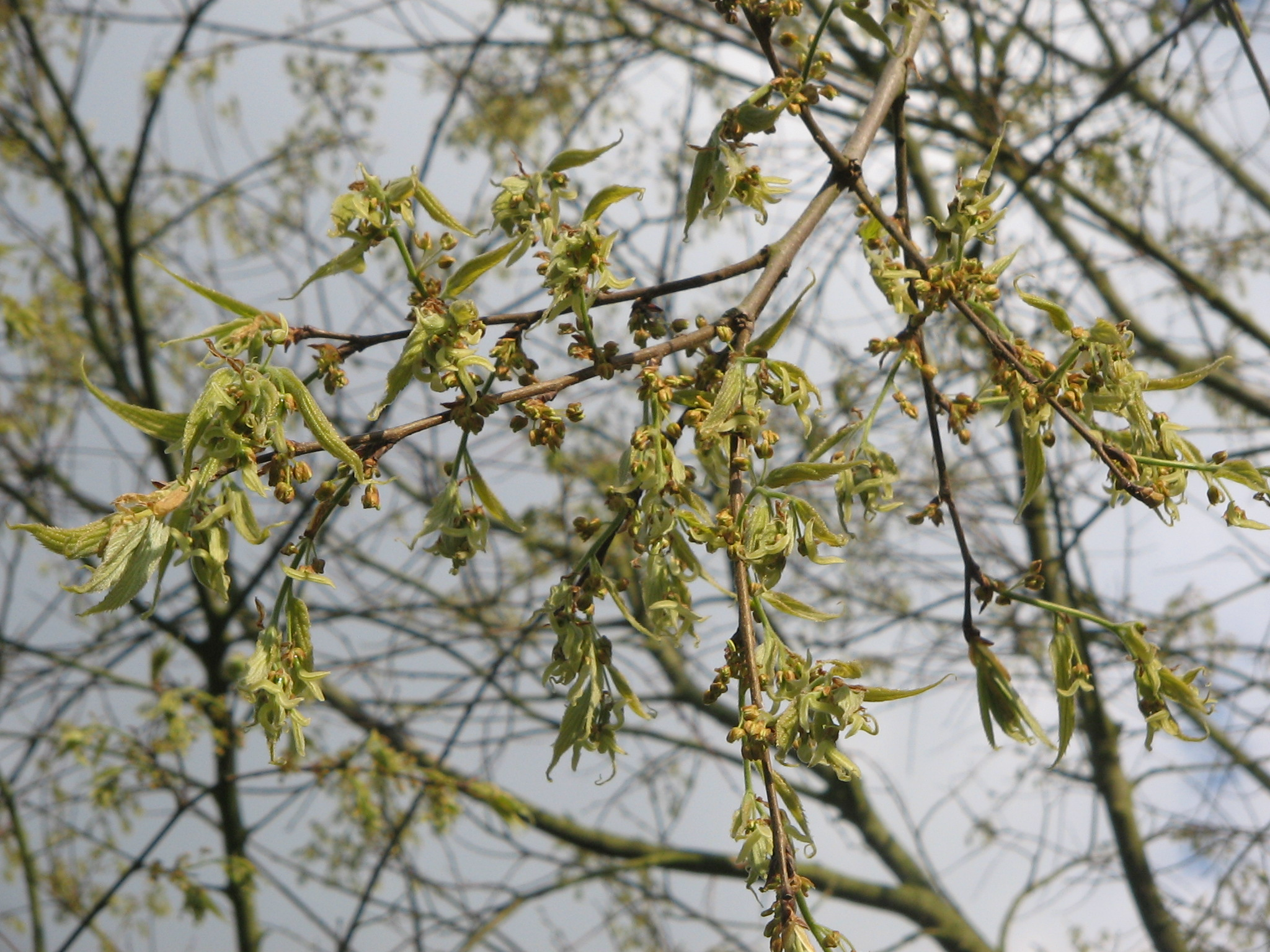 Celtis australis flowering